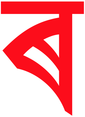 Asamiya Rô